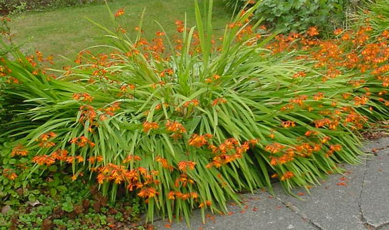 I took this photo. Montbretia in a front garden in north England in early August.